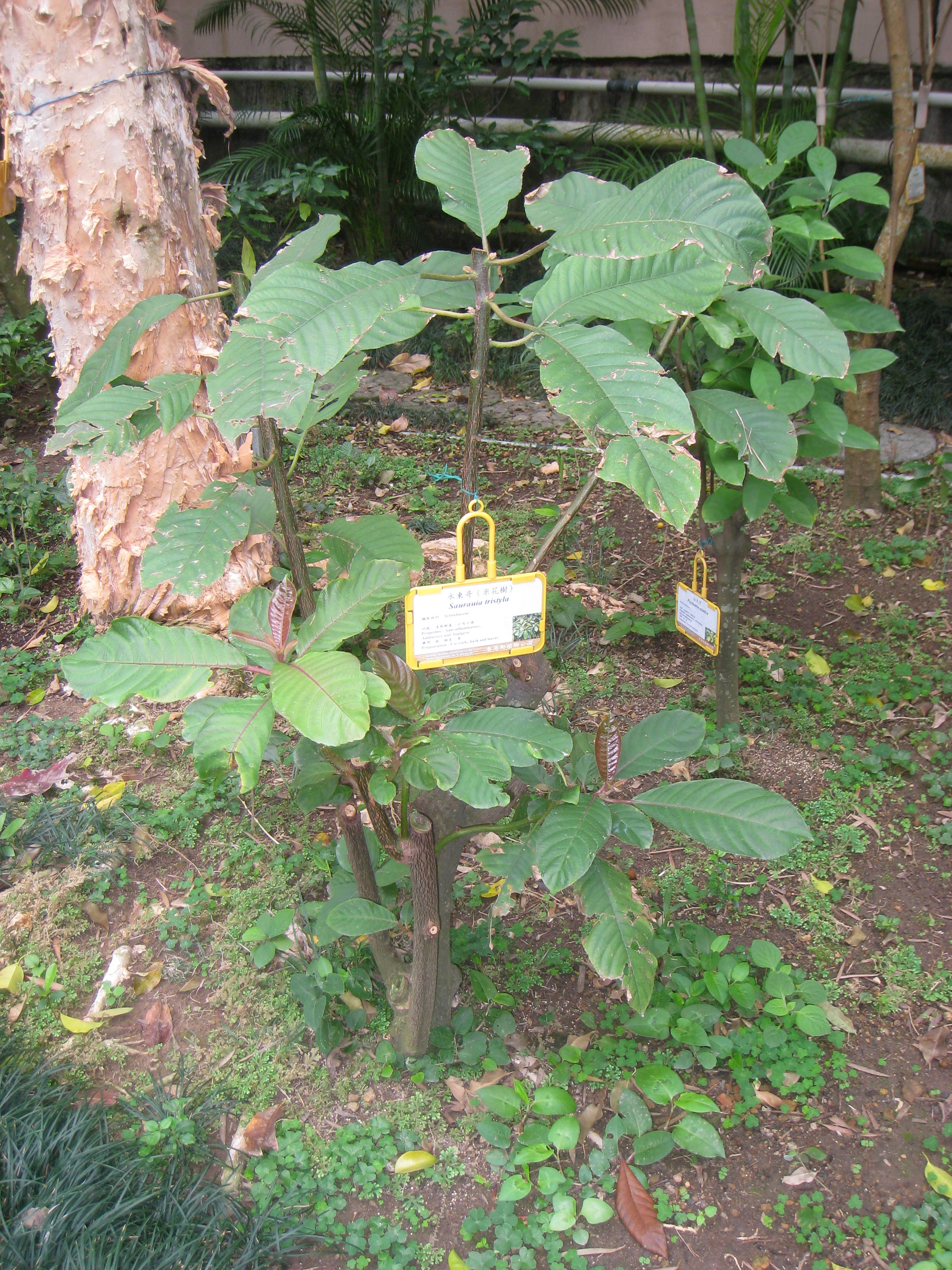 Saurauia tristyla. Plant specimen in the Hong Kong Zoological and Botanical Gardens, Hong Kong.